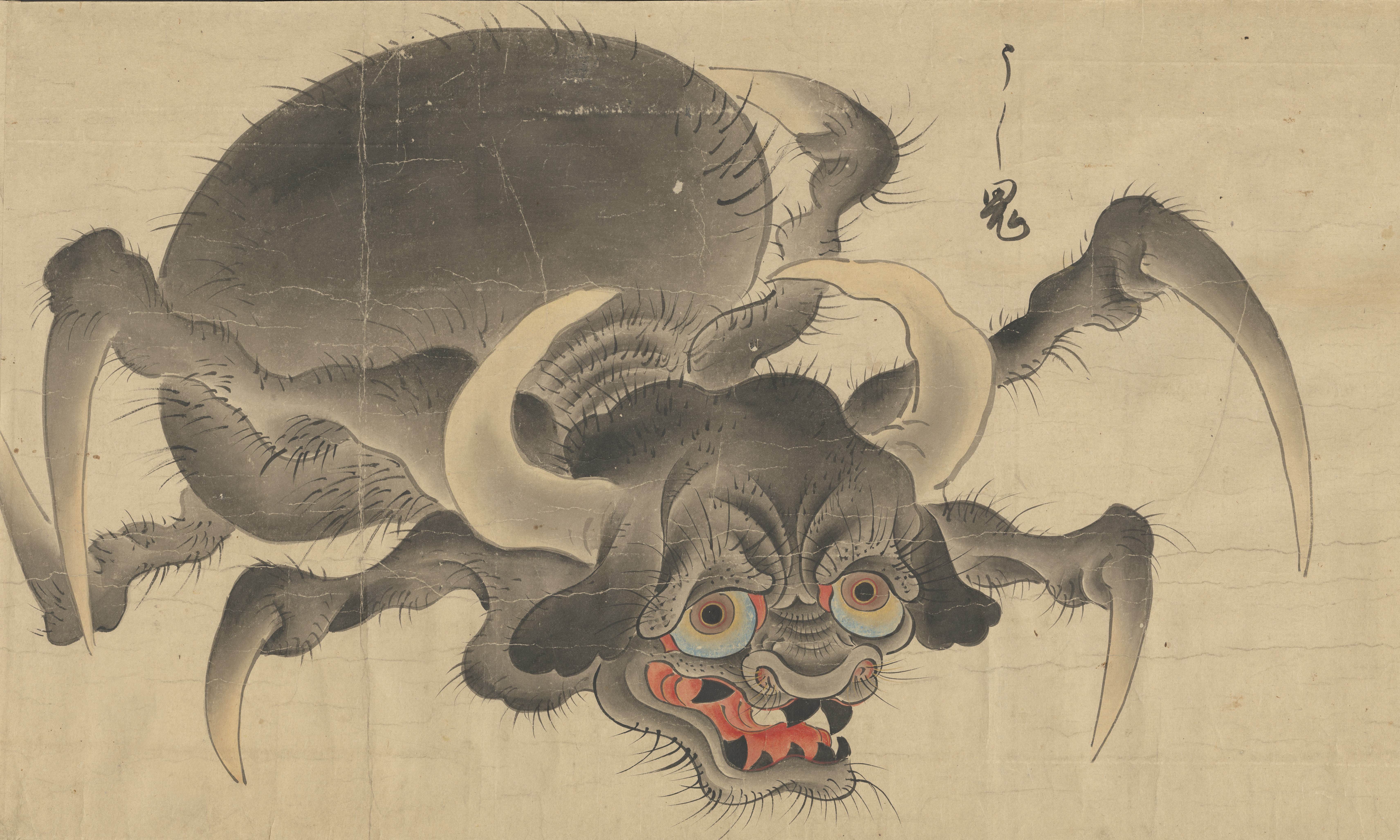 Ushioni 牛鬼 from Bakemono no e (化物之繪, c. 1700), Harry F. Bruning Collection of Japanese Books and Manuscripts, L. Tom Perry Special Collections, Harold B. Lee Library, Brigham Young University.